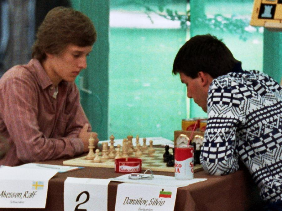 Ralf Akesson - Silvio Danailov, Junior Chess World Championship 1980 at Dortmund, Photographer Gerhard Hund.